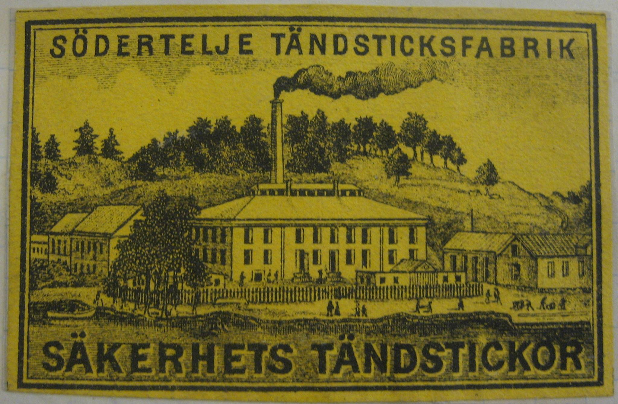 Match box from Södertelje Tändsticksfabrik with drawing of the factory building by Södertälje canal. City of Södertälje in the province of Södermanland, Sweden. The ‘Södertelje tändsticksfabrik’ brand was discontinued 1917.